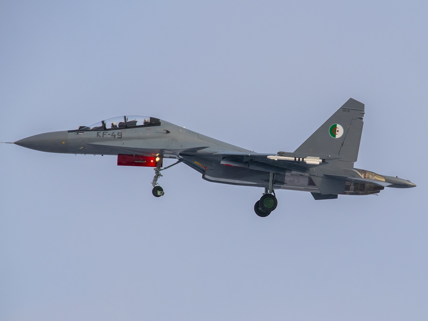 Algerian Air Force Sukhoi Su-30MK at Irkutsk-2